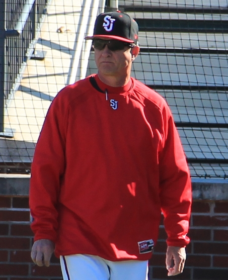 St. John's Red Storm coach Ed Blankmeyer